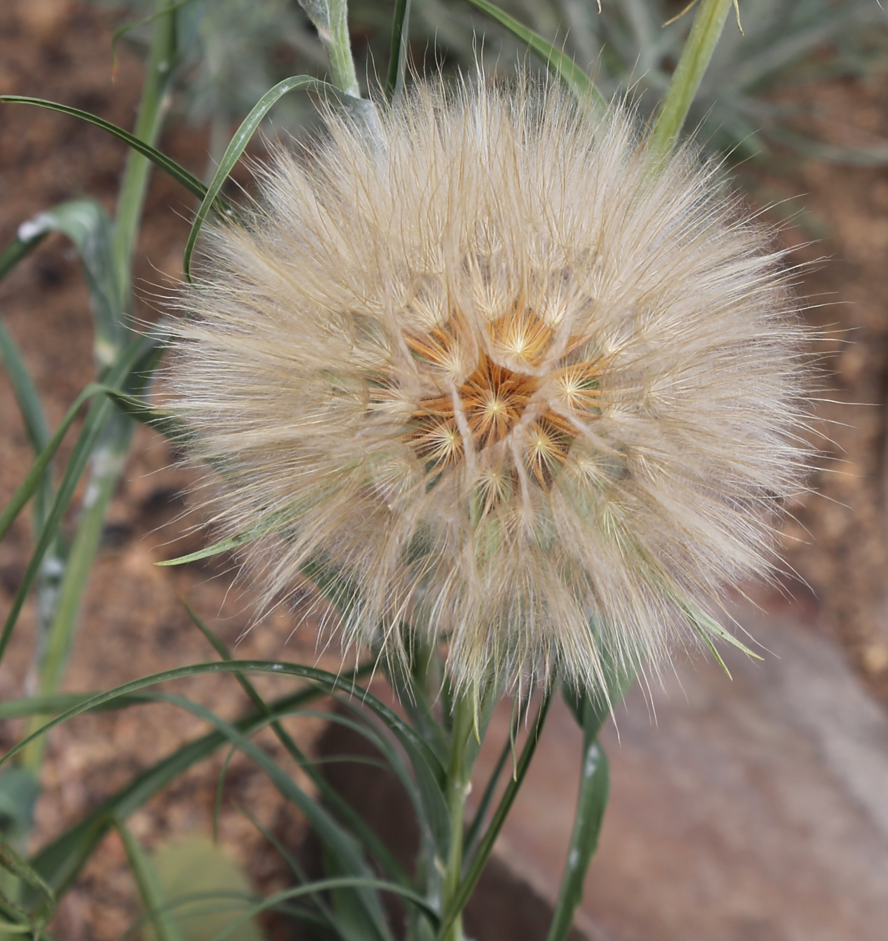 Closeup of the large seedhead of goatsbeard (Tragopogon dubius). This is an invasive plant in the Sierras, but both flowers and seed heads are quite elegant. At about 6800 ft altitude in Mono County California.